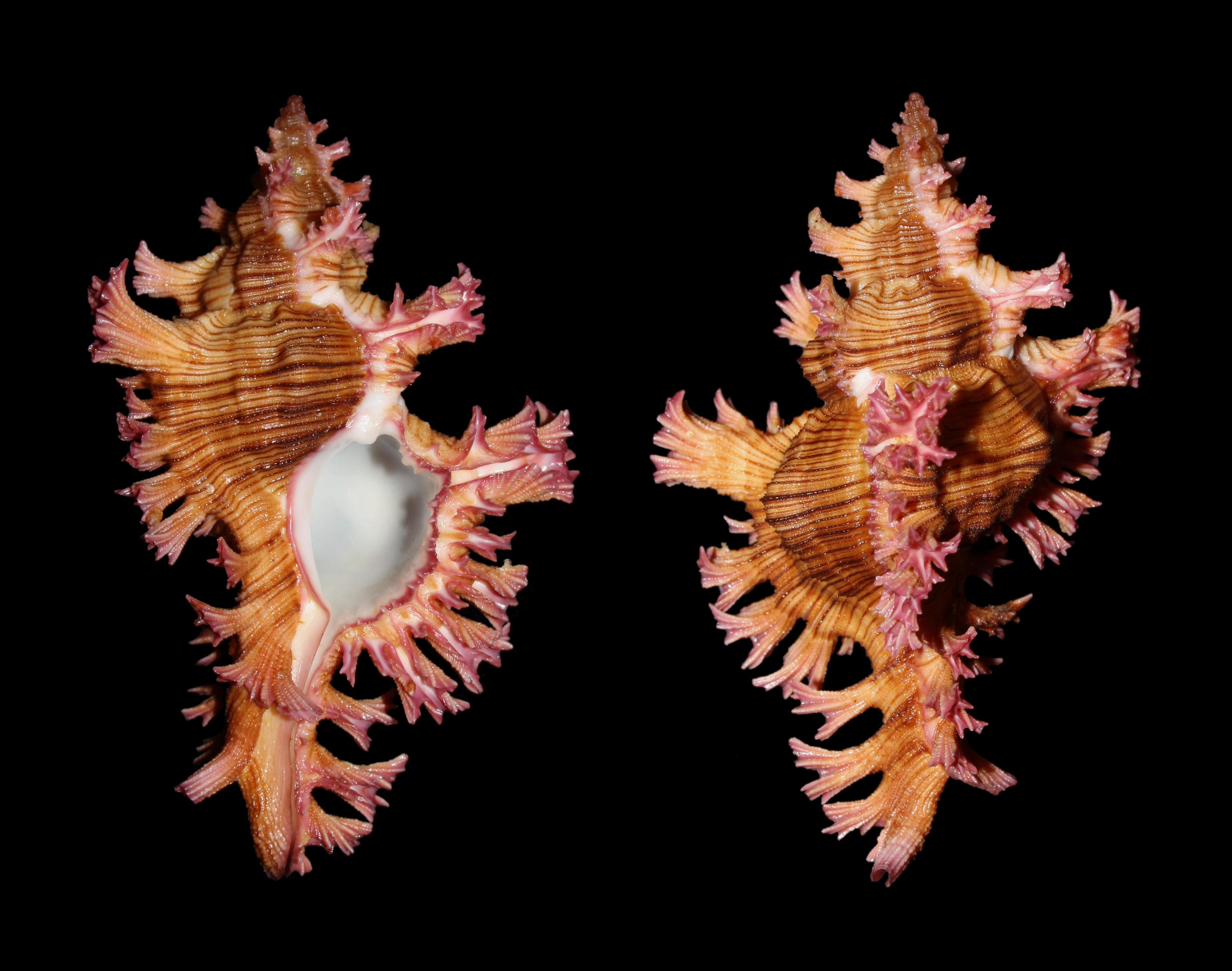 Chicoreus saulii Sowerby, 1841. Locality: Punta Engano, Philippines. 75 mm. Acquired March 1990.